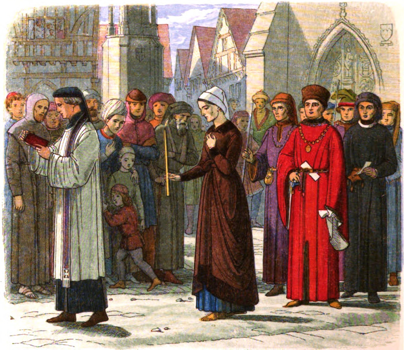 Eleanor Cobham performing penance for her admittance of involvement in a conspiracy to kill Henry VI. Doyle points out that the duchess's dress should have been black.